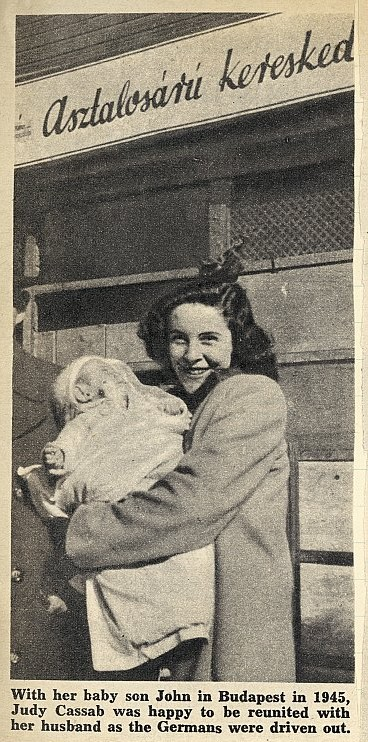 Scrapbooks and photograph albums, 1951-97 (selectively digitised) With her baby son John in Budapest in 1945 Judy Cassab was happy to be reunited with her husband as the Germans were driven out